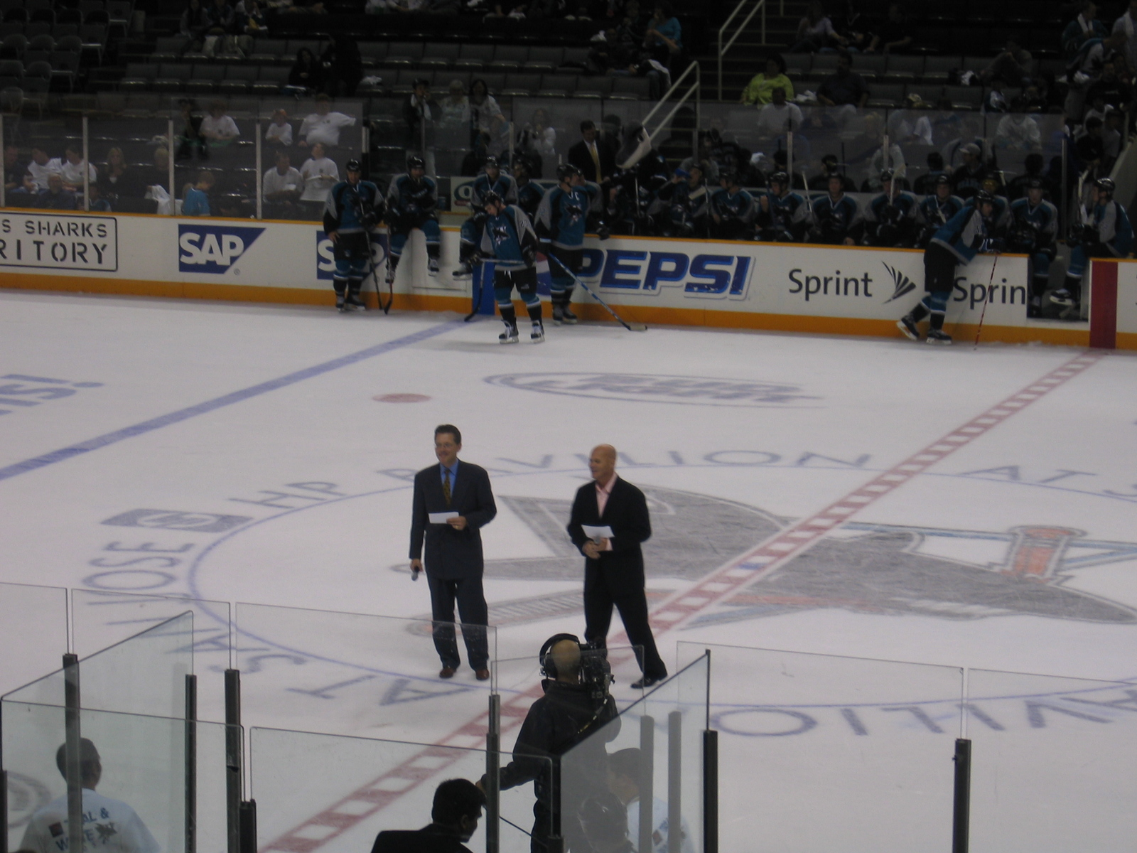 TV Color Analyst Drew Remenda and Radio Play-by-Play Announcer Dan Rusanowsky on the ice signaling the beginning of the 5-on-5 shootout.